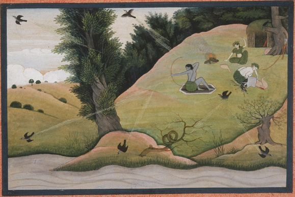 Dressed in leaves, Rama (blue), his wife Sita, and his brother Lakshmana (white) sit near their newly built hut at Chitrakut, where they will spend eleven years in exile. They have just killed an antelope and ritually prepare it as part of an ancient rite to purify their new home. Suddenly Sita is attacked by Kakasura (crow demon), an evil son of the god Indra. Rama plucks a blade of grass and, by speaking a powerful mantra, turns it into an arrowlike weapon. The grass-arrow chases the terrified crow until he returns to beg Rama's forgiveness. Although these events take place in the Aranyakanda (the third section of the Ramayana), the crow demon story is told only as a flashback in a later section. In this elegant composition, the crow appears seven times, pursued by the radiating white lines of the grass-arrow.